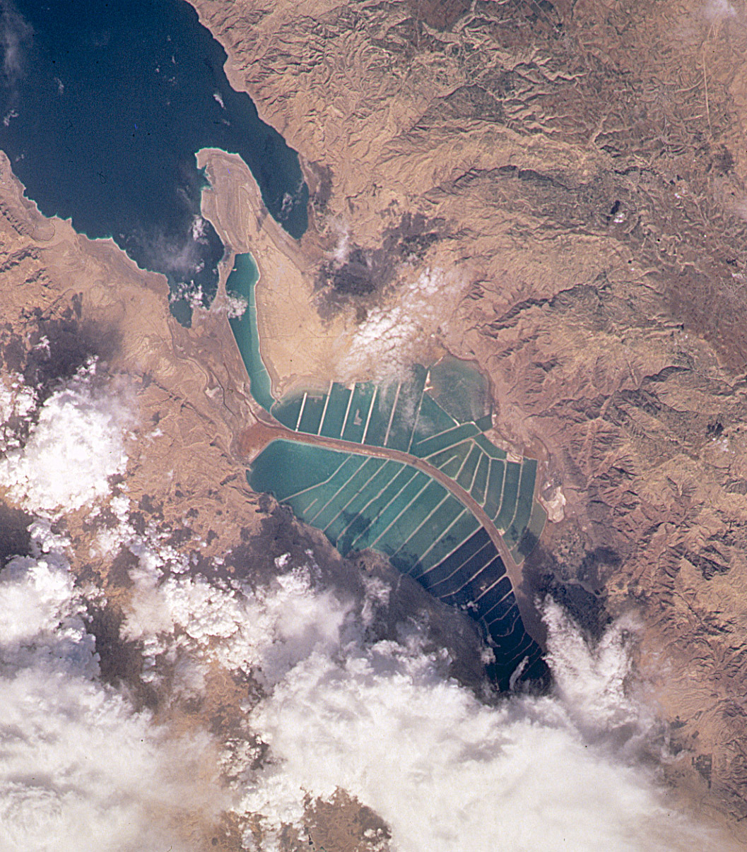 Orbital image of Jordanian and Israeli mineral evaporation ponds at the south end of the Dead Sea, separated by a central dike that runs roughly north-south along the international border.